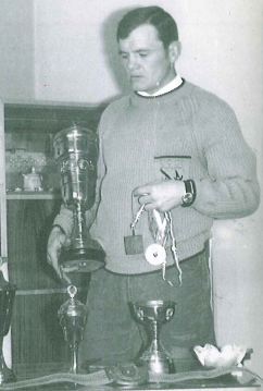 Лајко Карољ, југословенски боксер